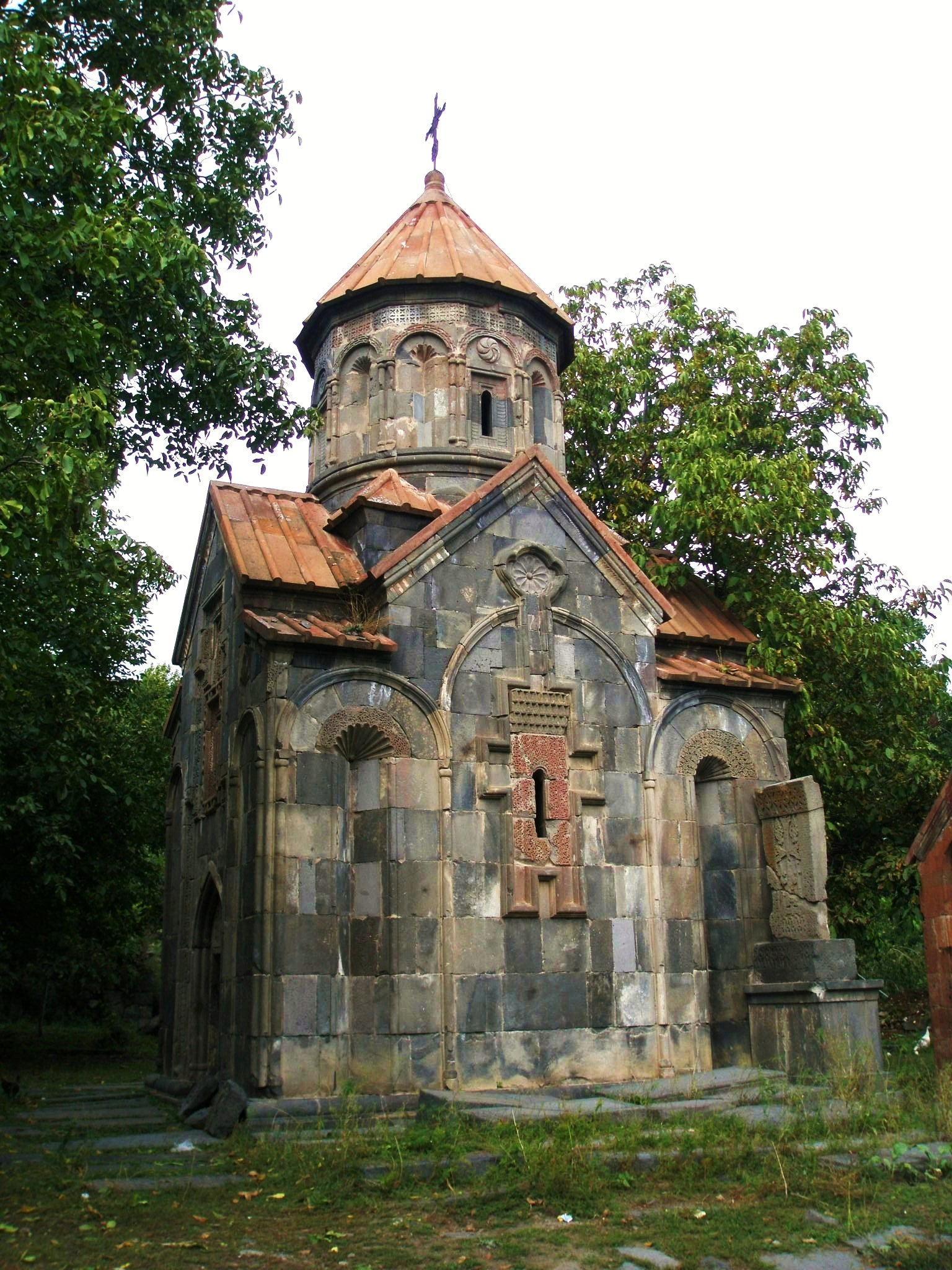 Mashtots Hayrapet Church of Garni 21/14